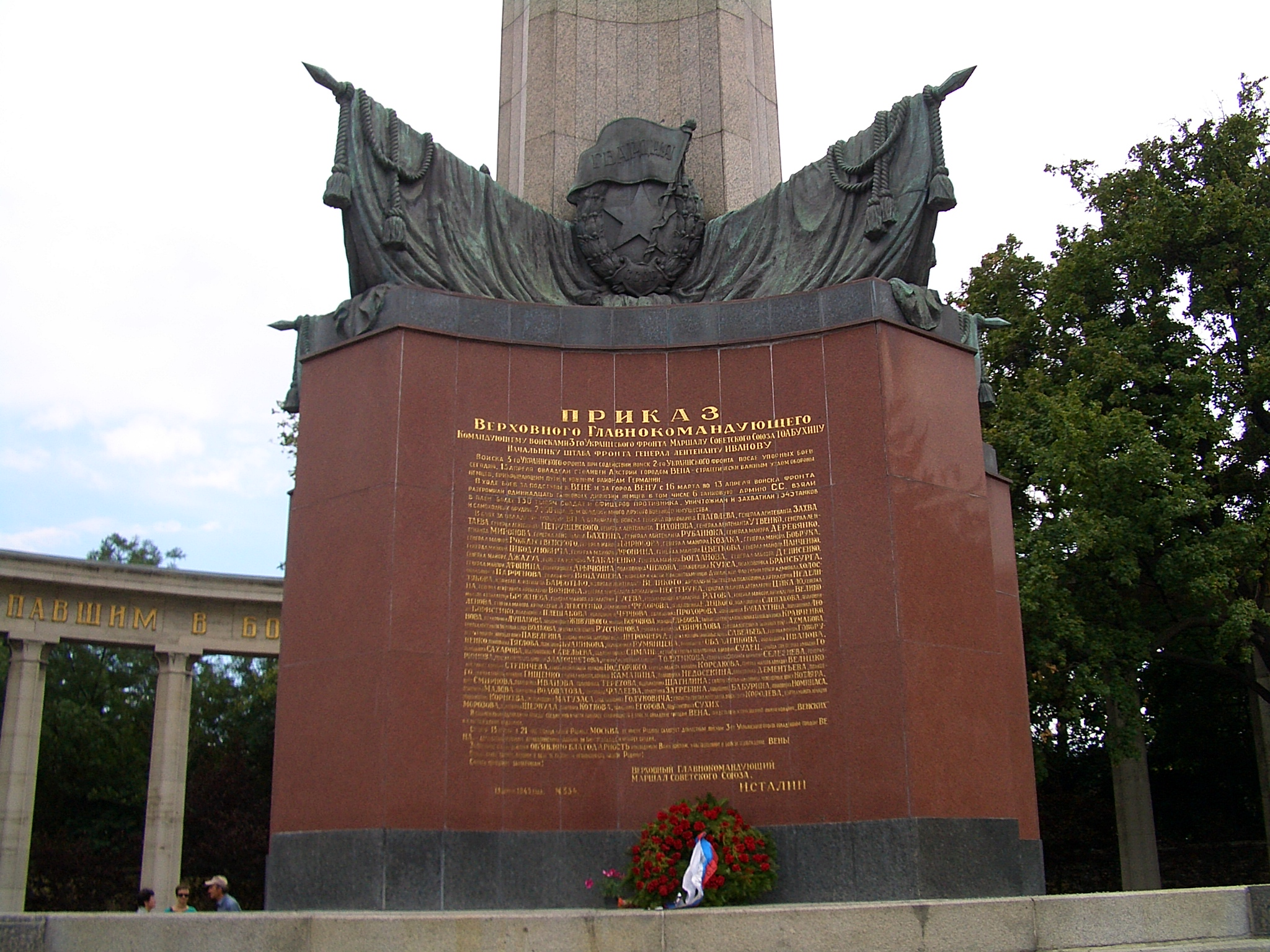 Austria, Vienna, Schwarzenbergplatz, Heroes Monument of the Red Army